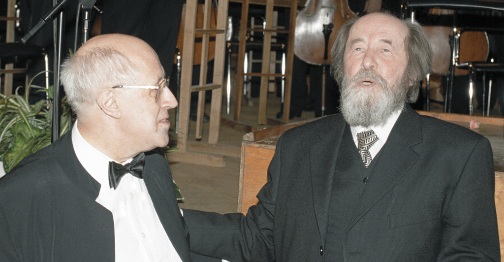 “Alexander Solzhenitsyn and Mstislav Rostropovich”. Writer Alexander Solzhenitsyn (right), winner of the Nobel Prize, and cellist Mstislav Rostropovich (left) at the celebration of Solzhenitsyn's 80th birthday.